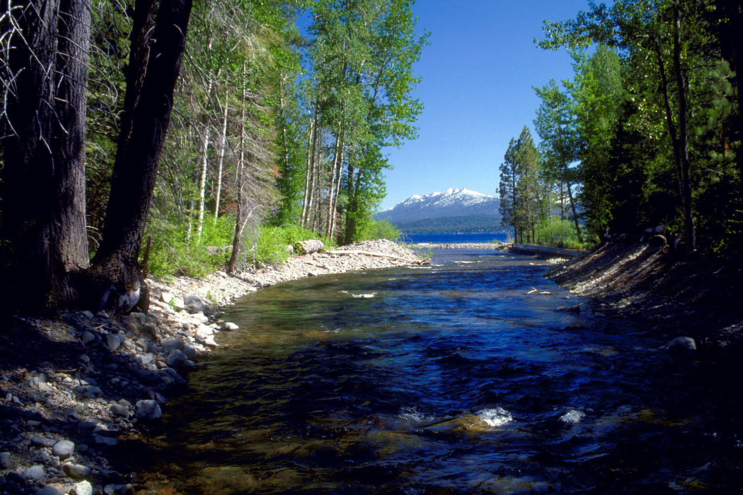 The mouth of Ward Creek on the western shore of Lake Tahoe near Tahoe City, Placer County, California, USA. The creek flows into Lake Tahoe and is one of the subjects of a study project to maintain the purity of Lake Tahoe. Coordinates: 39°7′43.69″N 120°9′19.94″W / 39.1288028°N 120.1555389°W (mouth)